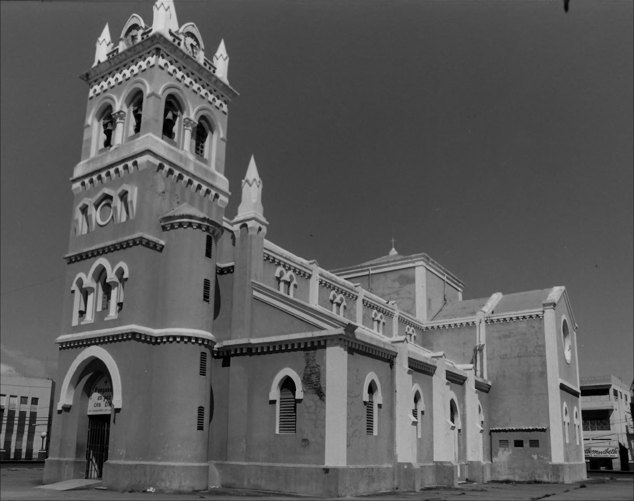 Concatedral Dulce Nombre de Jesús, Town Plaza Humacao Municipality -- Humacao